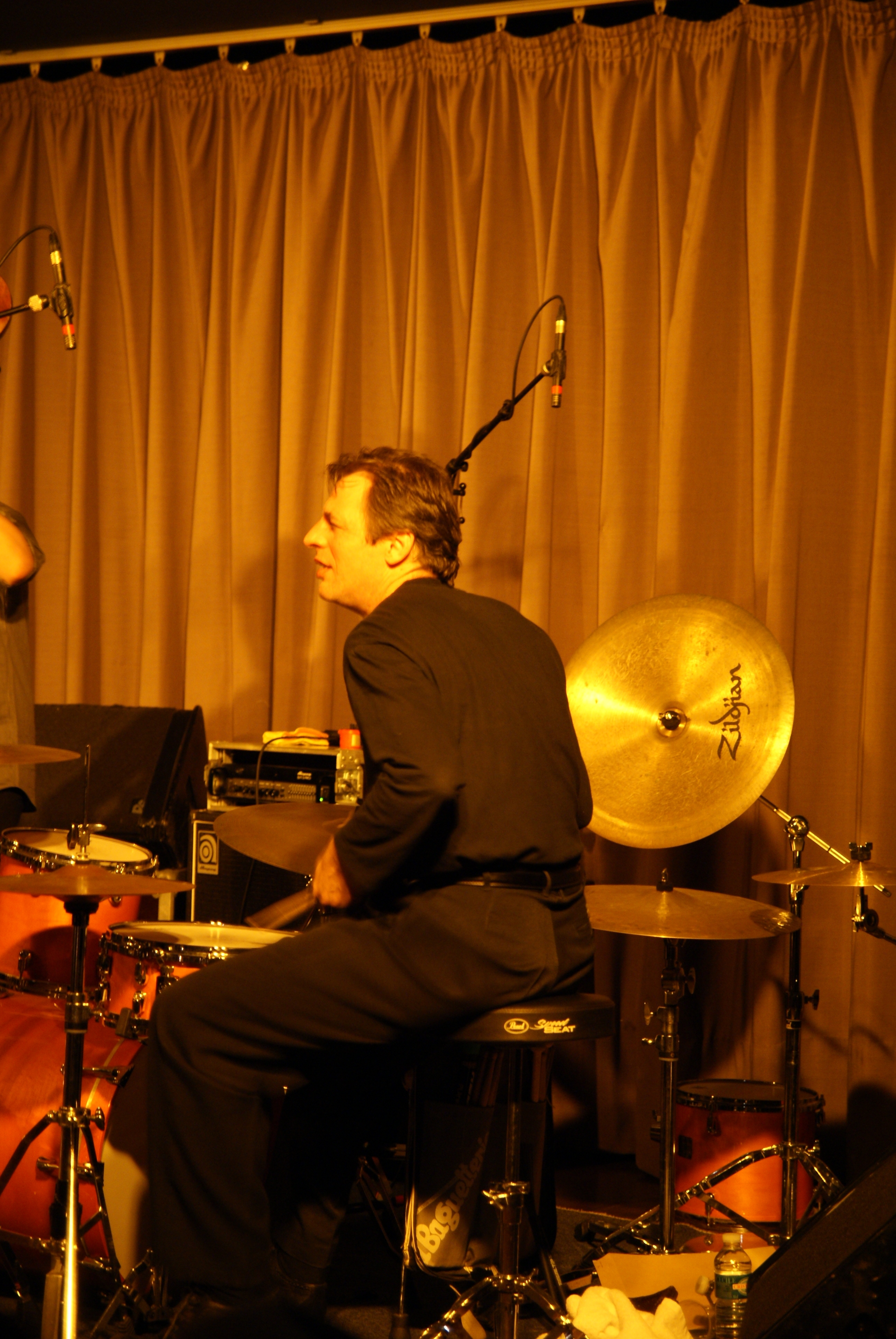 Louis Moutin, french jazzman